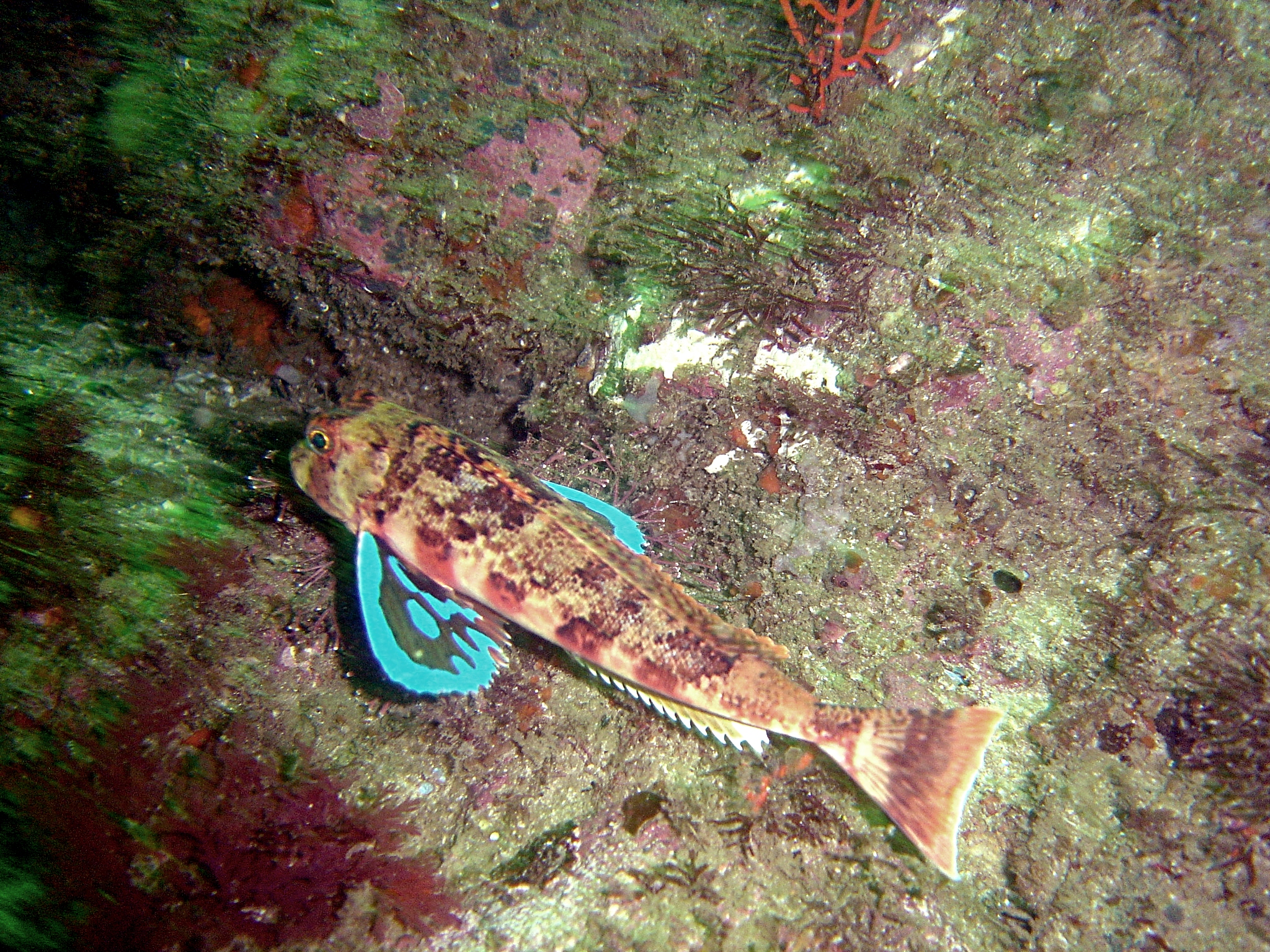 Cape Gurnard showing the blue on its pectoral fins at Kruis, Rooi-els.